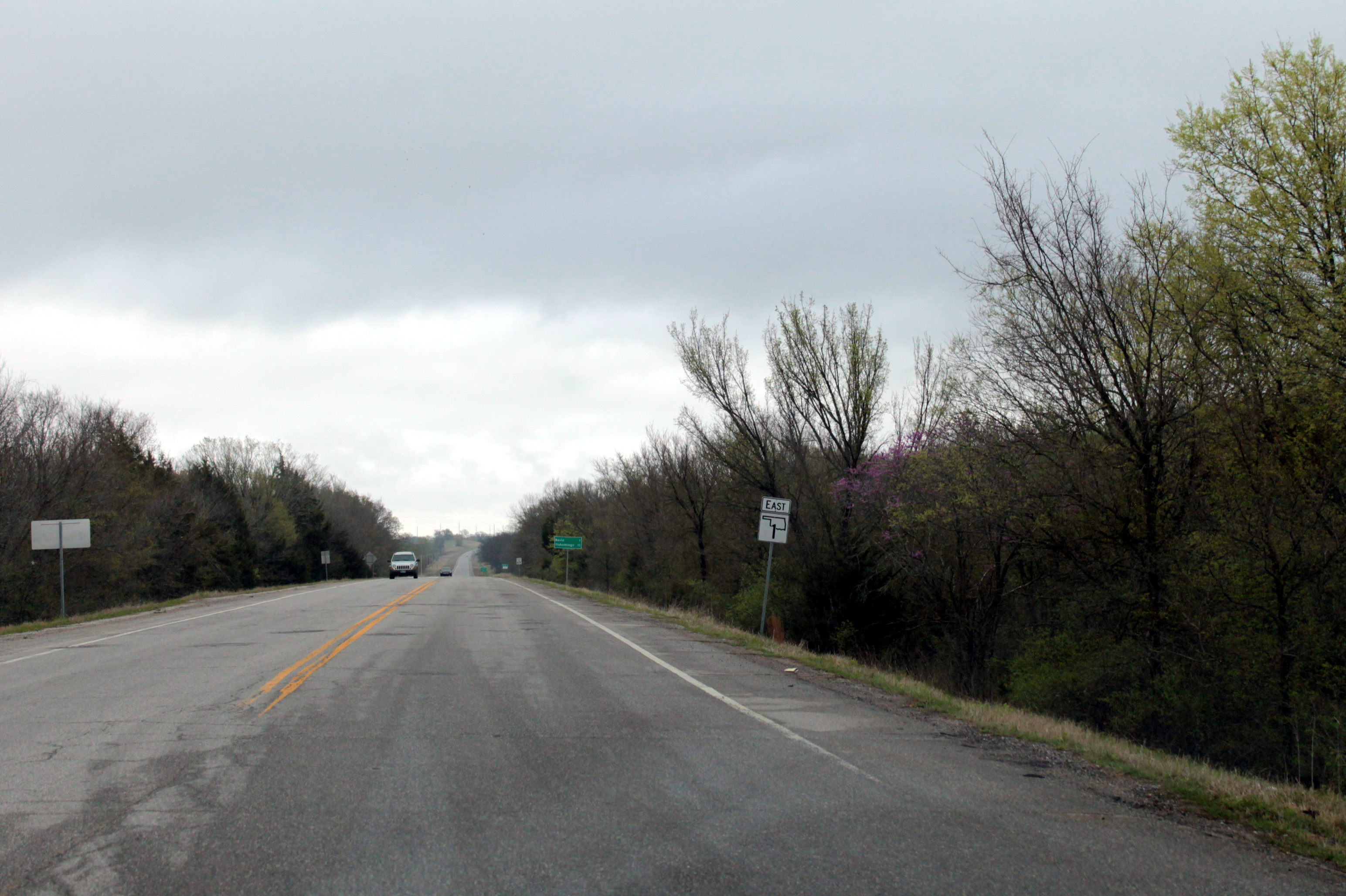 The eastbound beginning of State Highway 1 in Marshall County, Oklahoma.